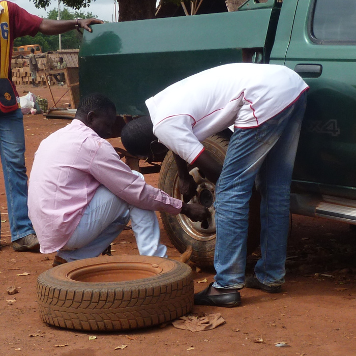 Changing a wheel on an African dirt track. This is an image with the theme "Africa on the Move or Transport" from: Burkina Faso